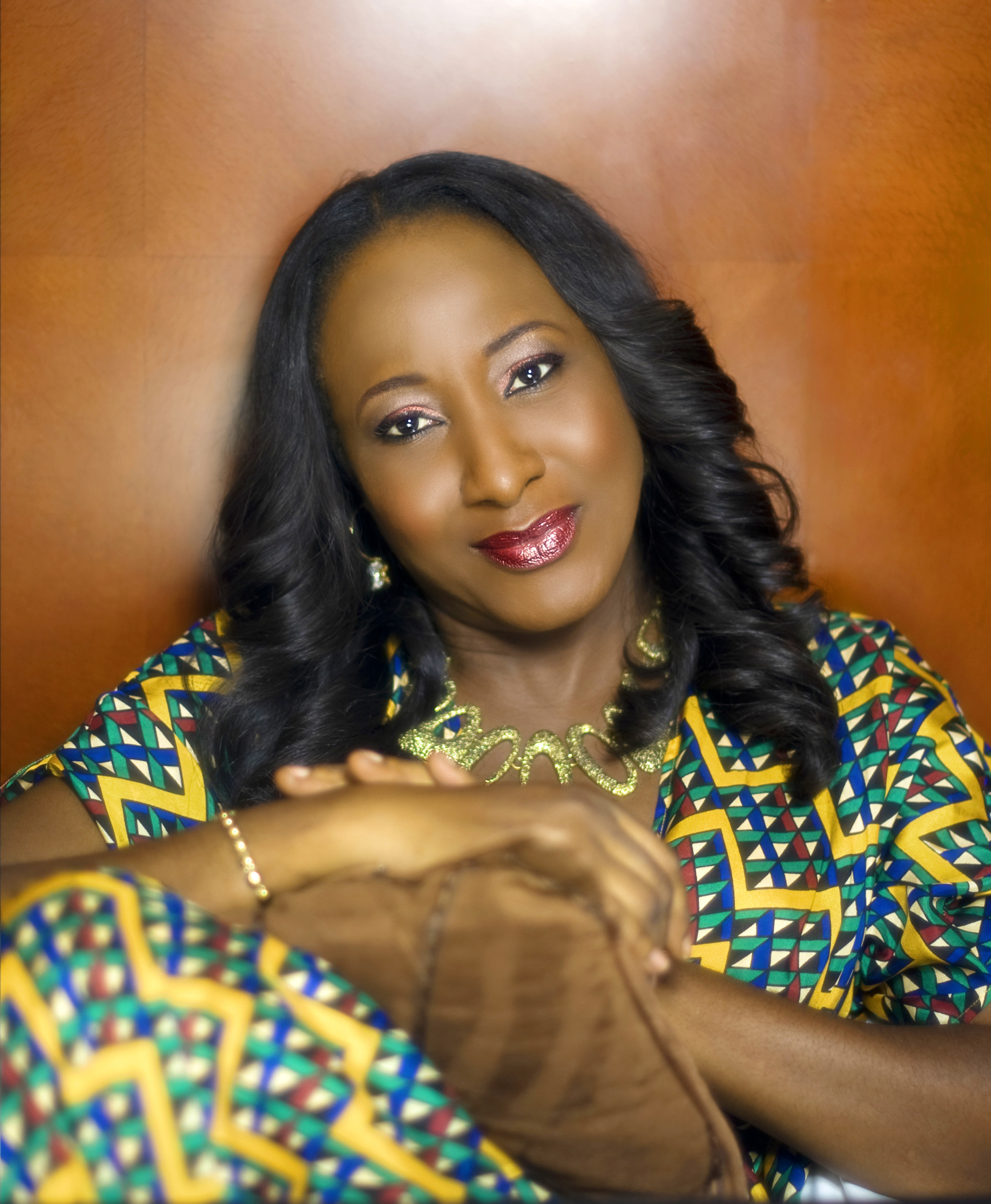 Photograph of Nigerian actress Iretiola Doyle